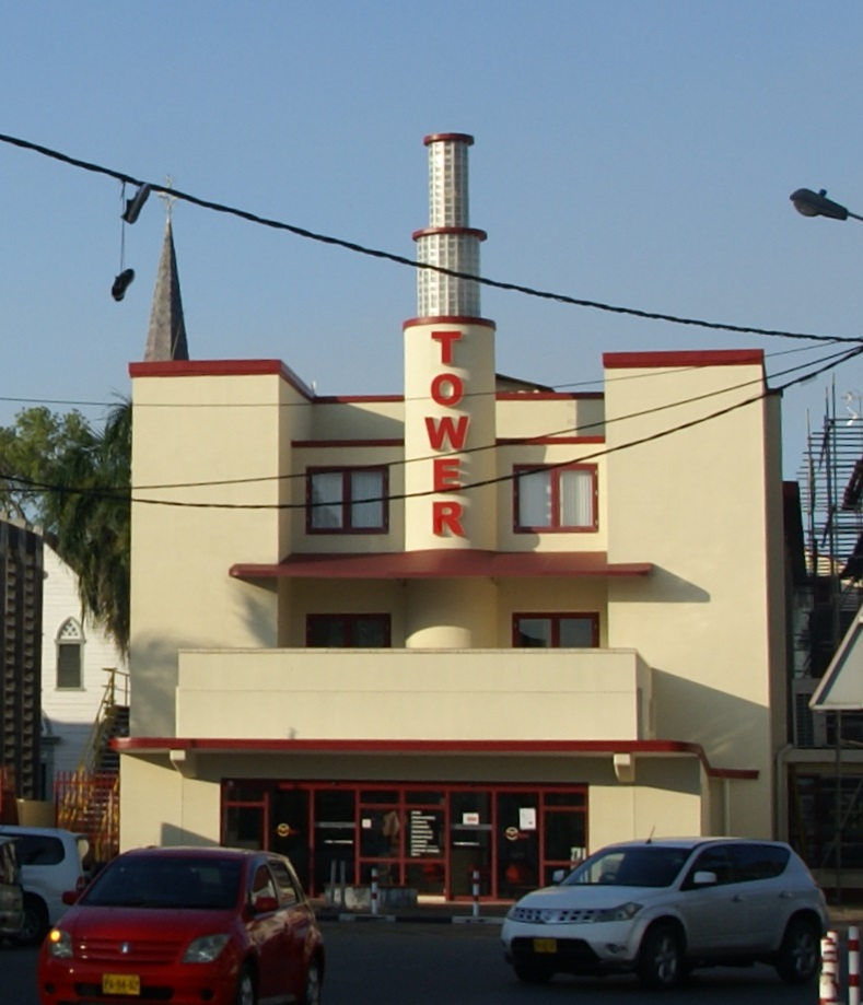 Former cinema Tower, Heerenstraat 50, Paramaribo, Surinam.